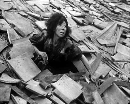 Yumeji Tsukioka in Hiroshima.